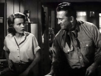 Gena Rowlands and Kirk Douglas in Lonely Are the Brave (1962) - trailer (cropped screenshot)